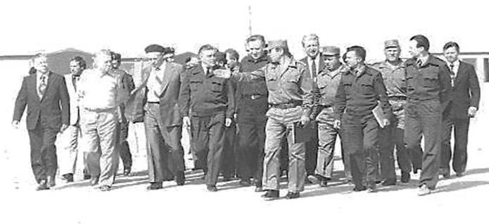 High-ranked Soviet military officials inspect the troops, stationed in Syria.